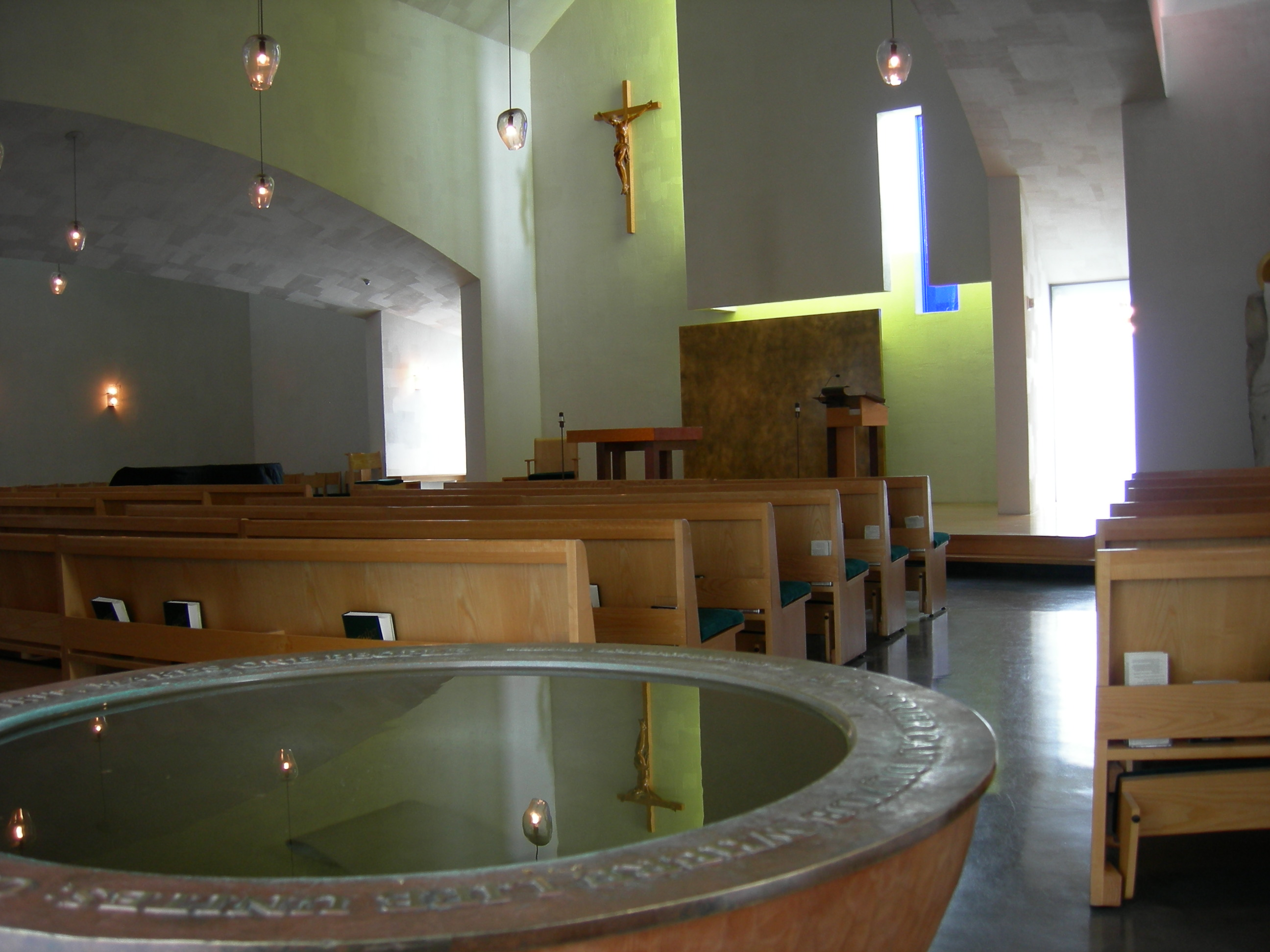 Font and interior, Chapel of St. Ignatius, Seattle University. Architect: Steven Holl.